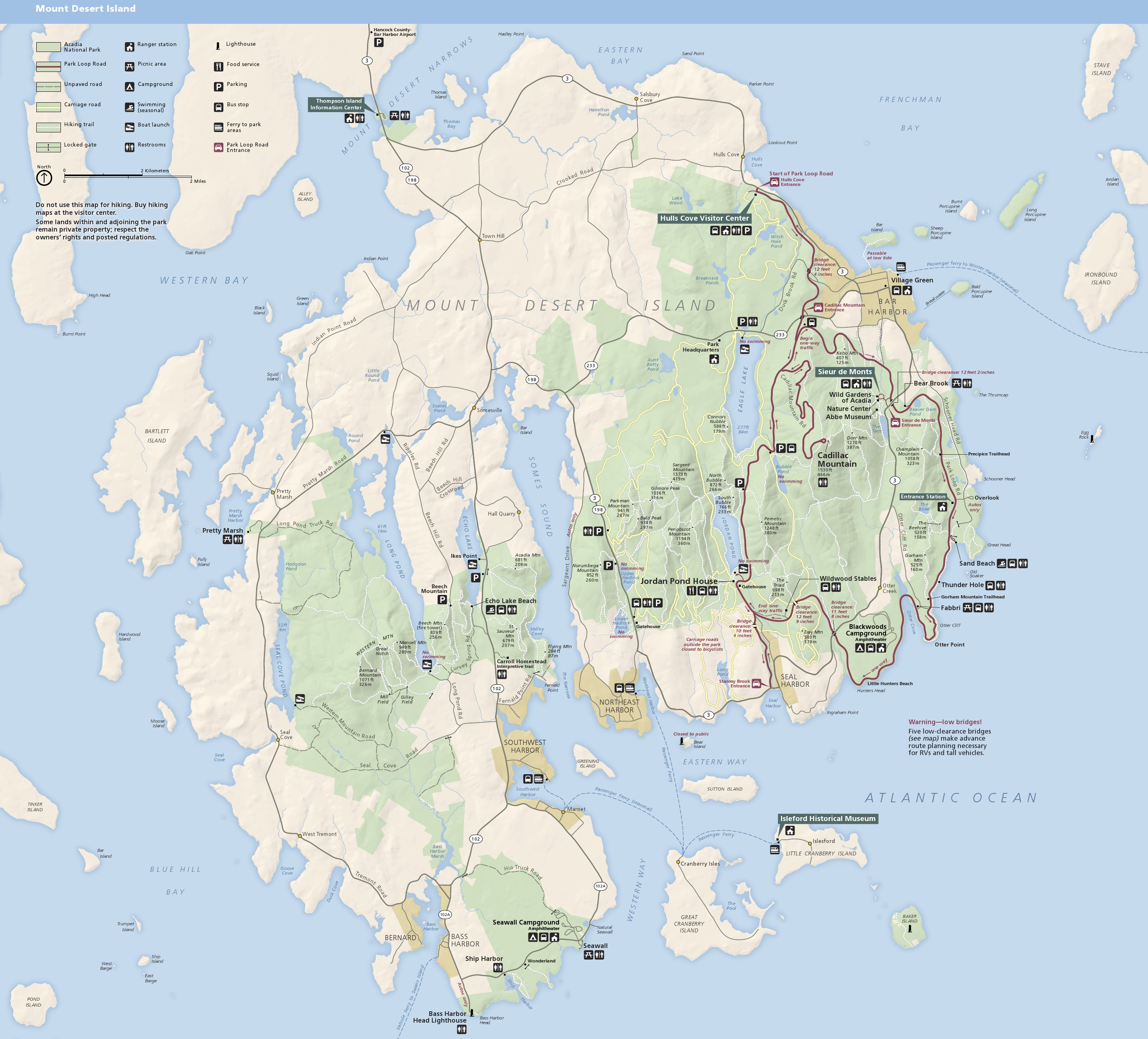 Main Acadia National Park map, showing the majority of the park located on Mount Desert Island near Bar Harbor.